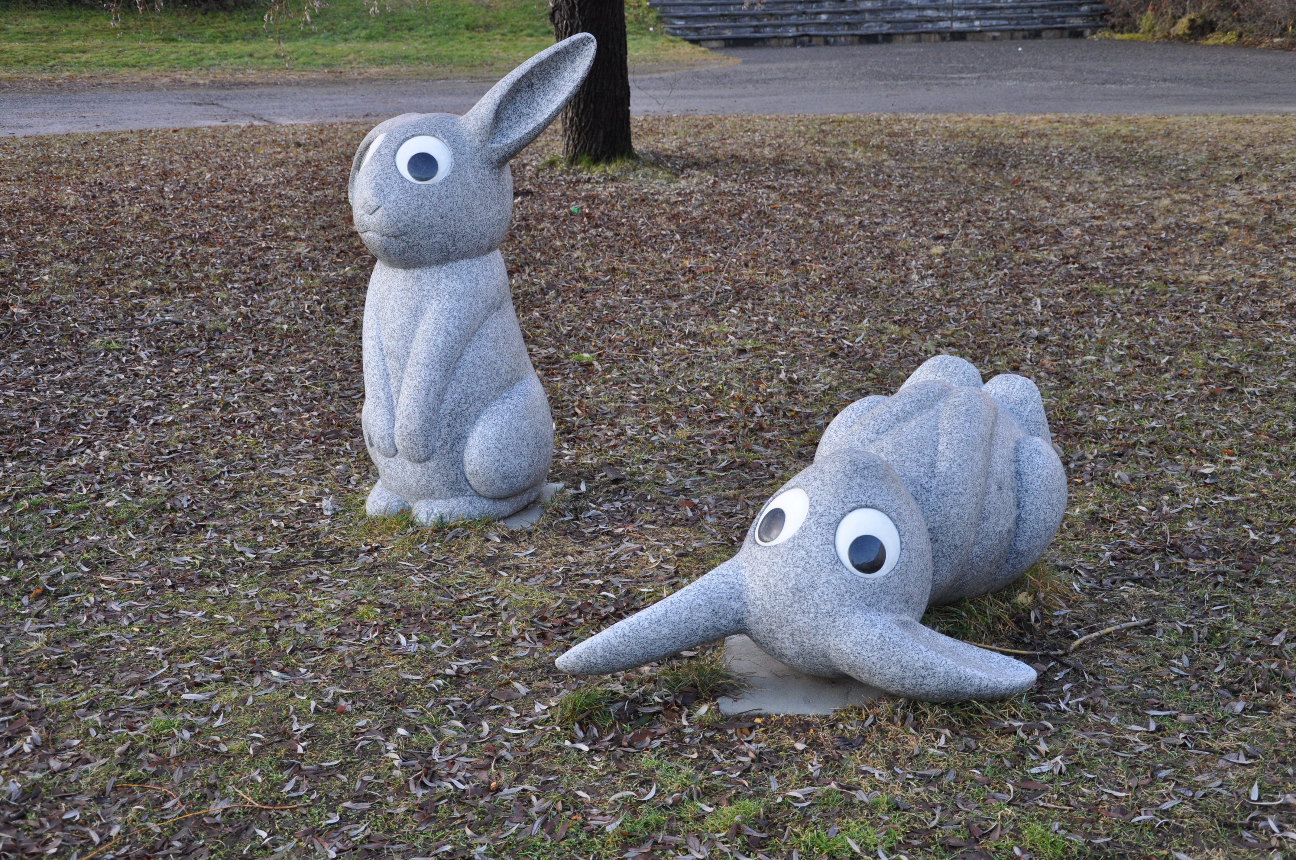 Rabbit tales - a study in unhuman sexual expectations, sculpture outside Skellefteå museum by artist Marianne Lindberg De Geer.